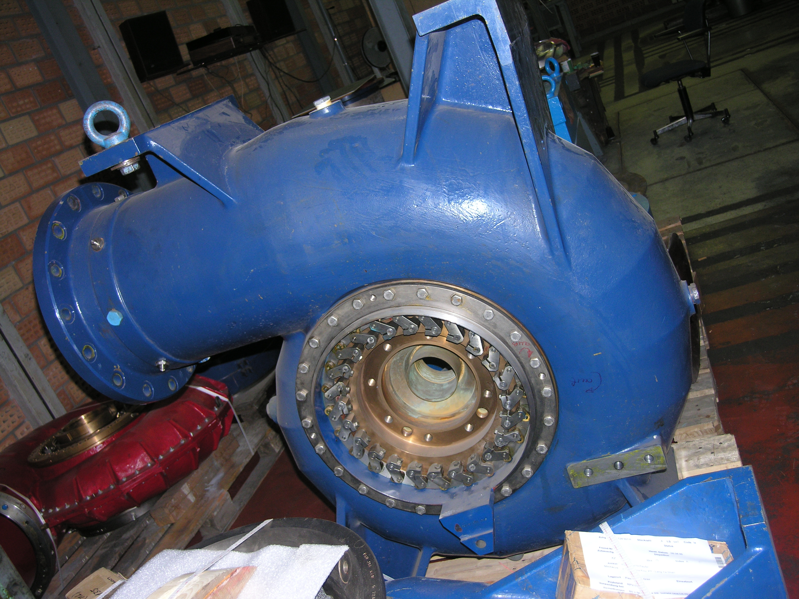 The water turbine. Taken in the plant that manufactures the water turbines, Zurich, Switzerland.